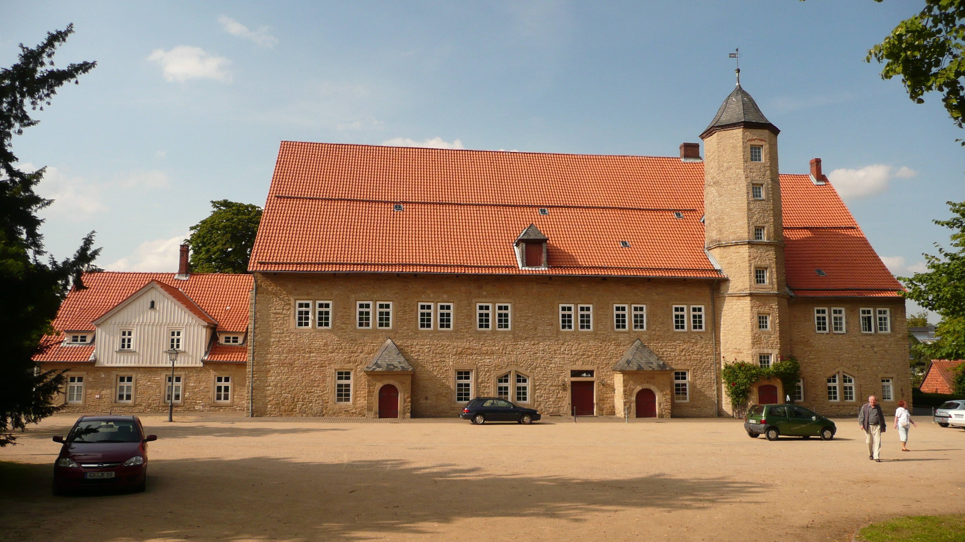 South side of Bündheim Castle in Bad Harzburg